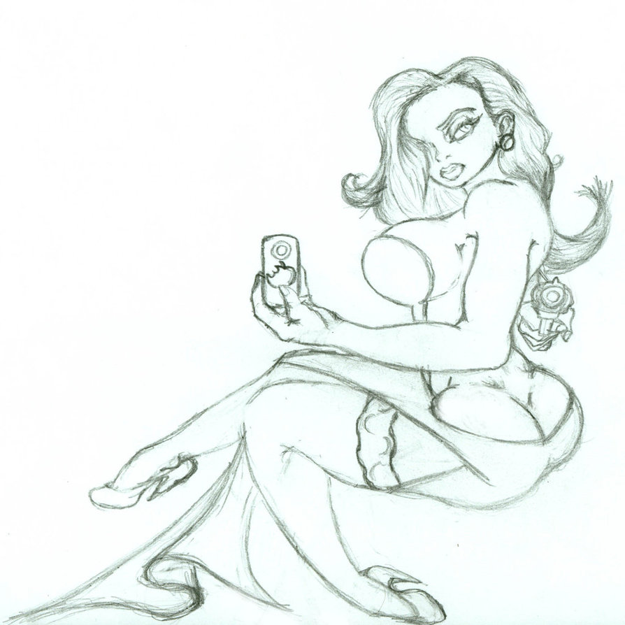 Jessica Rabbit